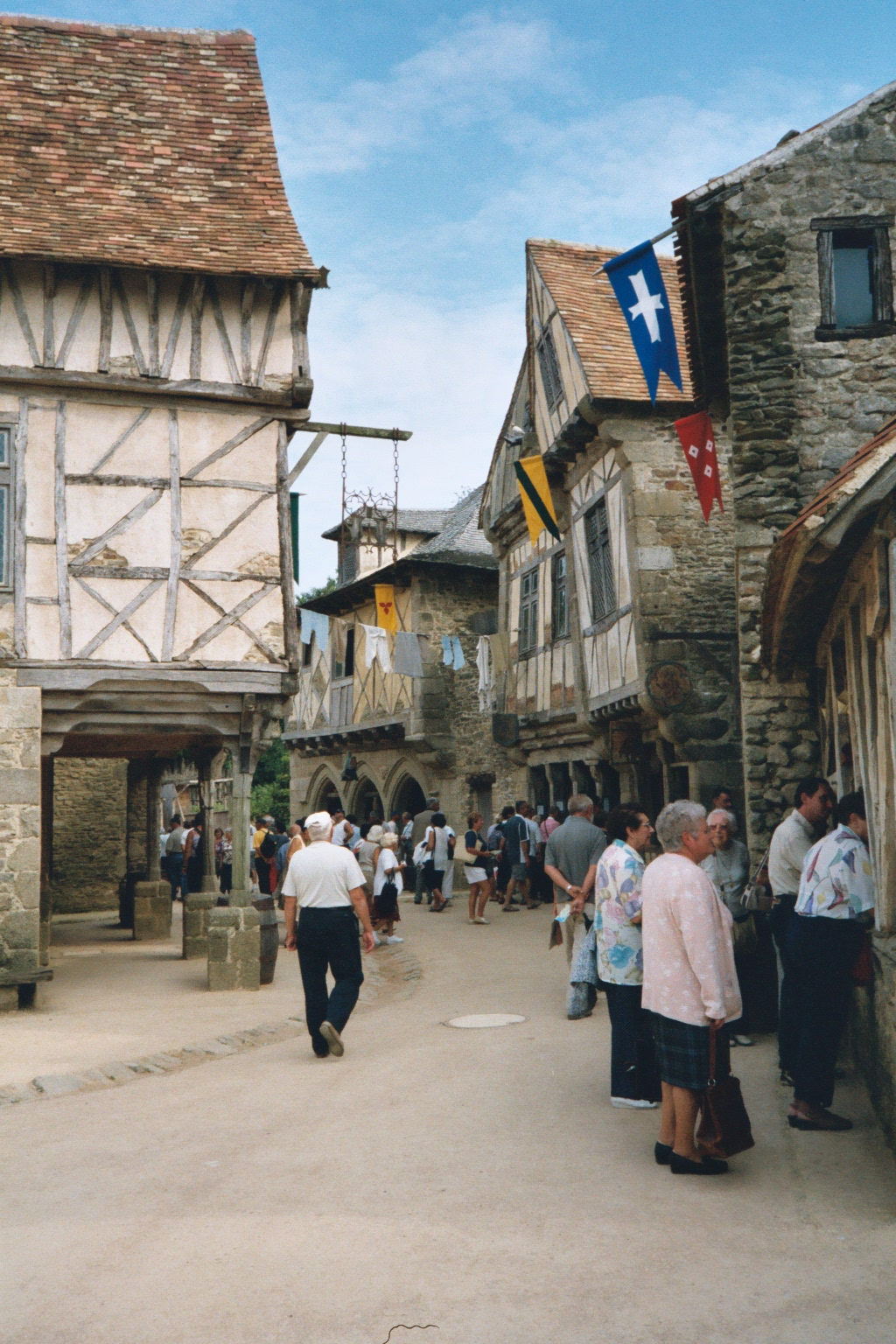 Theme park of Puy du Fou